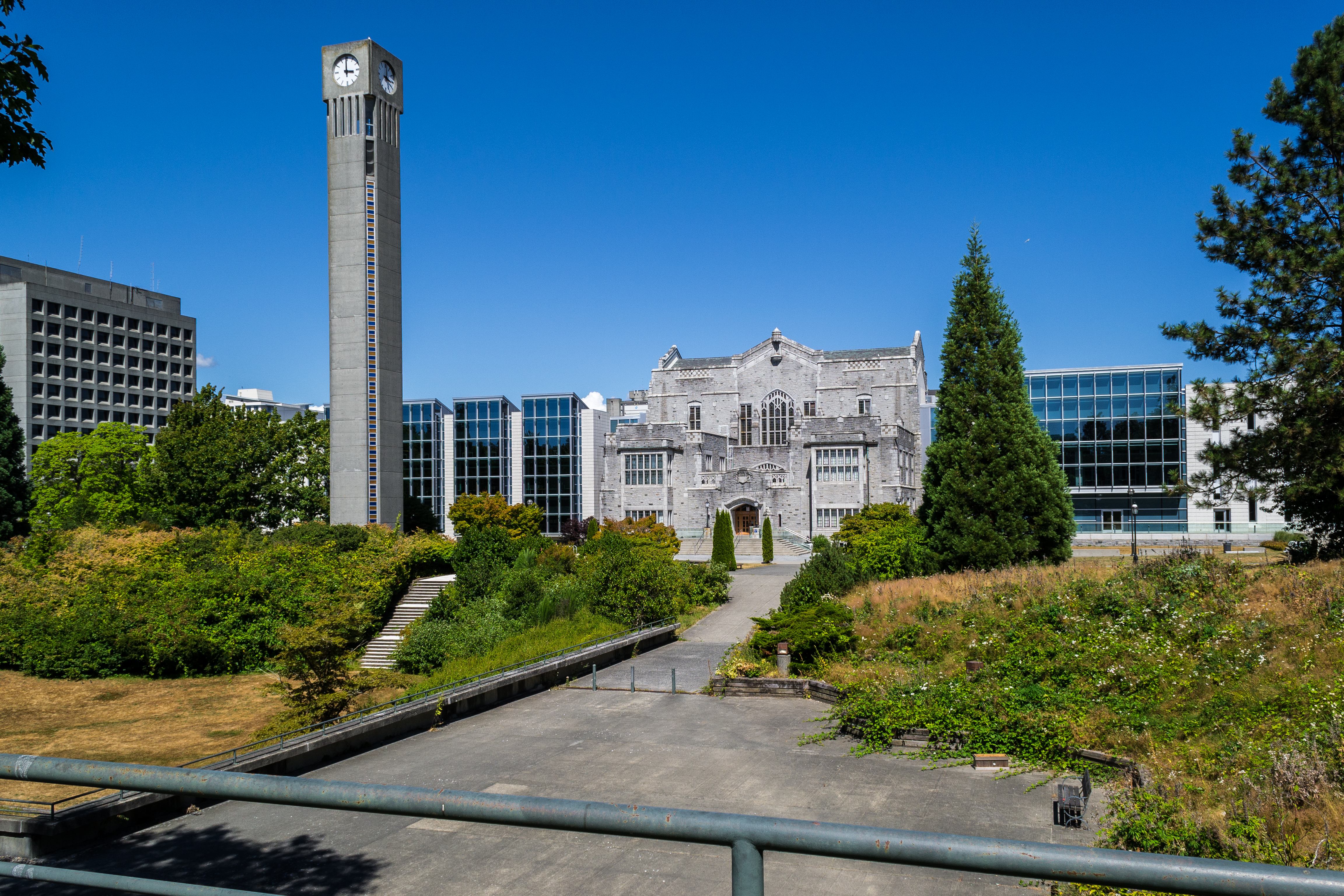 Irving K. Barber Learning Centre, one of the libraries of the University of British Columbia. The historic centre wing was built between 1924 and 1925. The modern glass left and right wings were completed in 2006. The clock tower is called the Ladner Clock Tower and was built in 1968. The building on the extreme left is the Buchanan Tower. Address of the library: 1961 East Mall, Vancouver, BC, Canada.